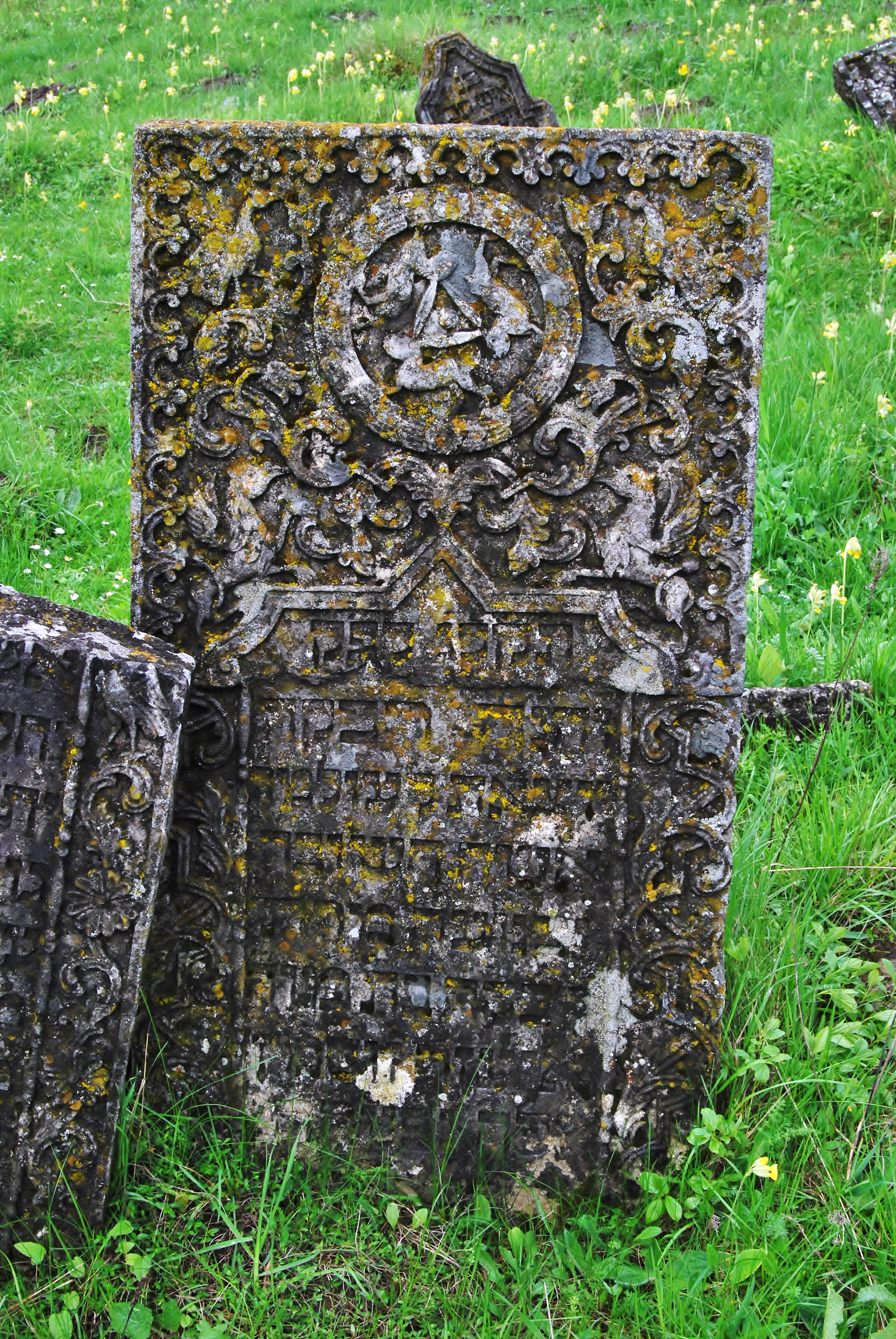 Jewish Cemetery in Sataniv, Horodok Raion, Khmelnytskyi Oblast